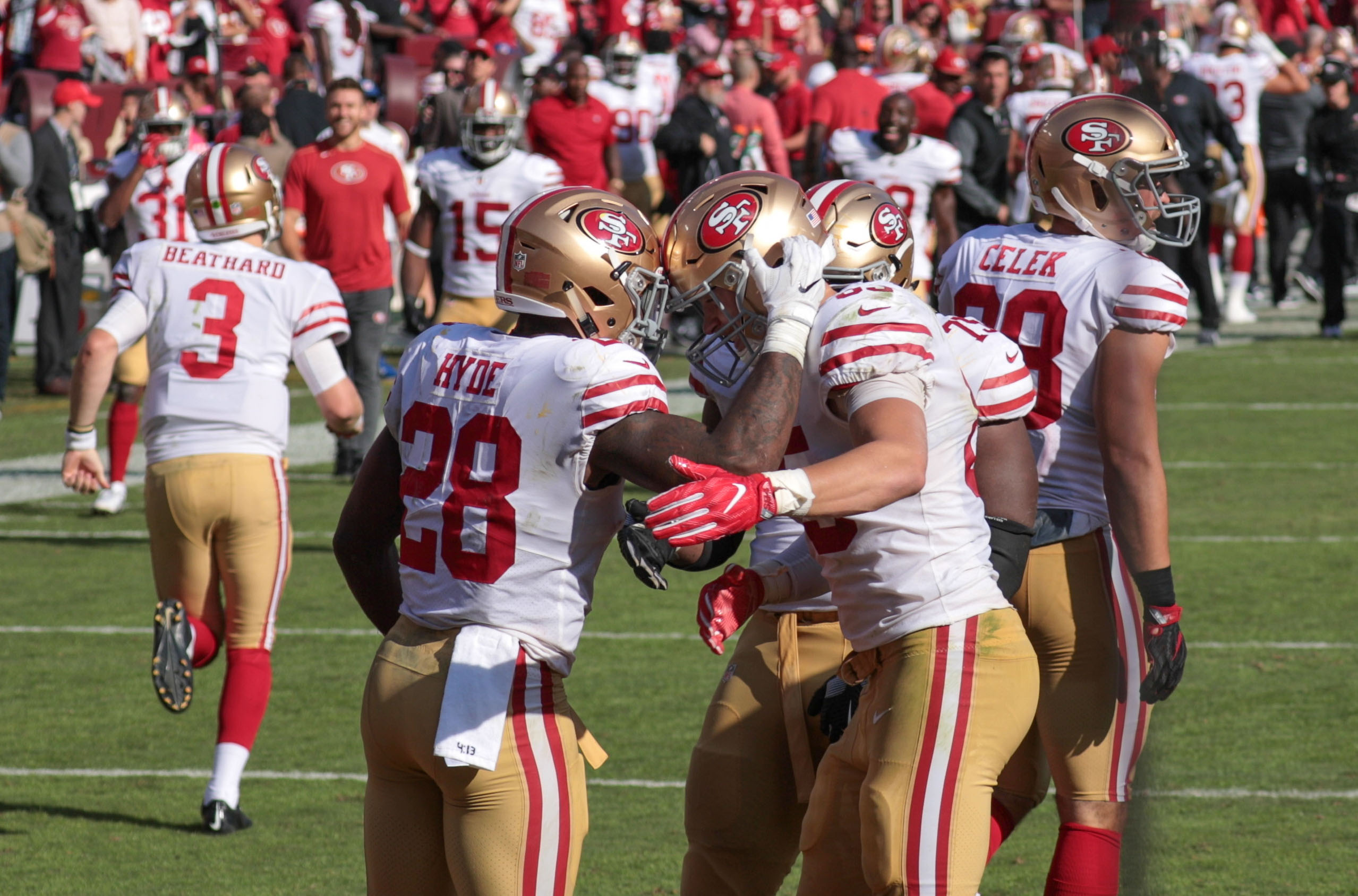 Hyde in a game against the Washington Redskins in 2017